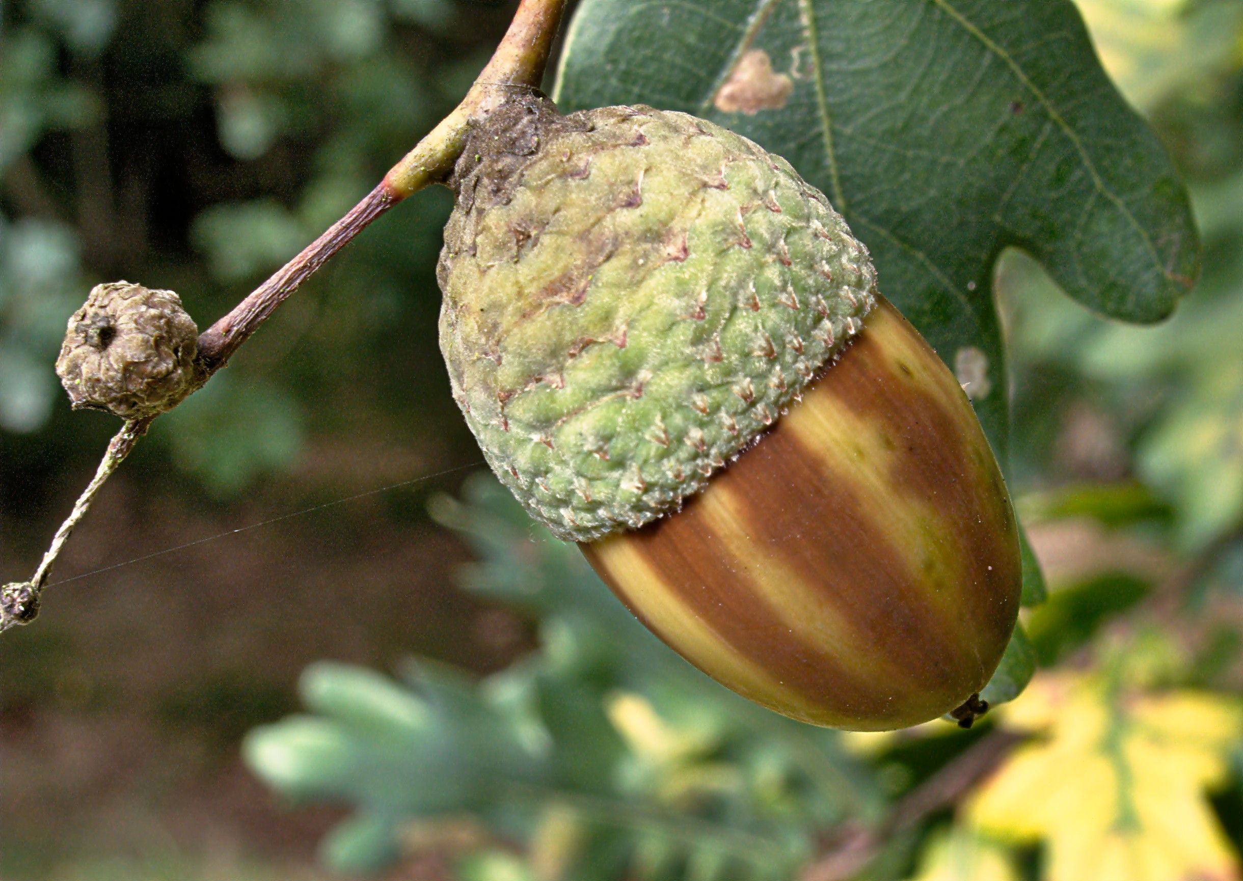 Oak (Quercus robur) acorn, ripening. Family: Quercus. Location: Münster, NRW, Germany